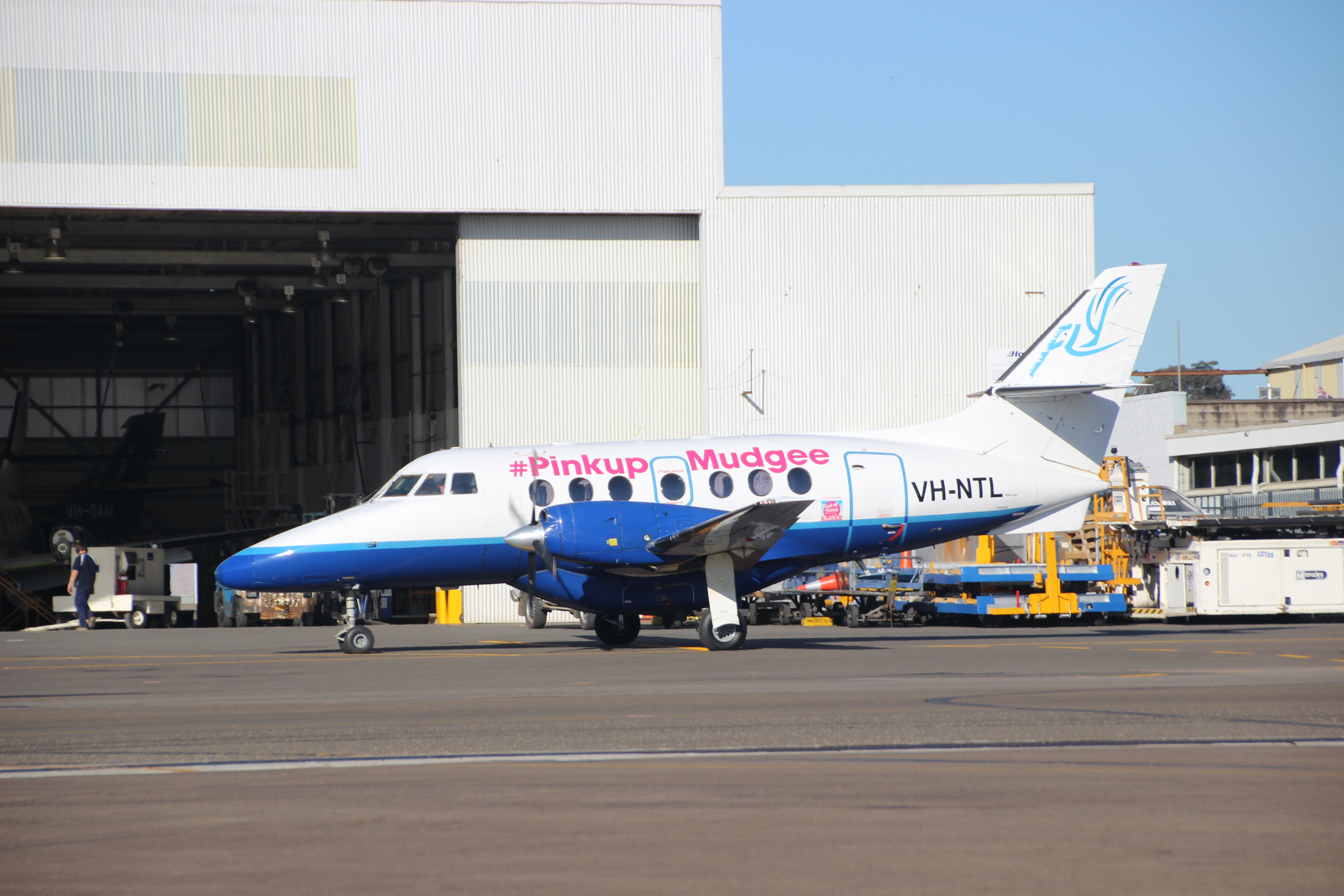 A FlyPelican British Aerospace Jetstream 32; wearing special titles and door-side decal to promote a community fundraising drive for the McGrath Foundation, an Australian breast cancer support and education charity. Digital image of VH-NTL taken by YSSYguy at Bankstown Airport in Sydney, Australia on 25 October 2016 and uploaded for use in the FlyPelican article. YSSYguy (talk) 03:23, 18 November 2016 (UTC)